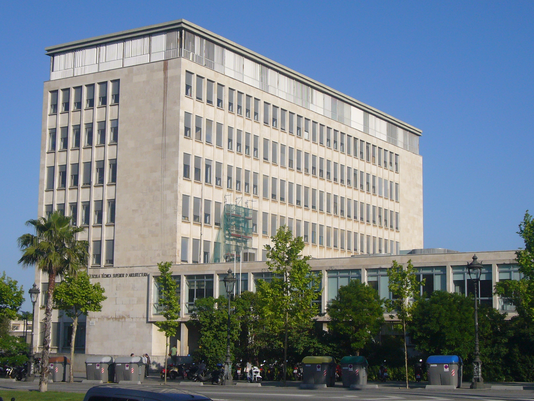 ETSAB (Escola Tècnica Superior d'Arquitectura de Barcelona) arquitecture school of Universitat Politècnica de Catalunya. Avinguda Diagonal, Barcelona